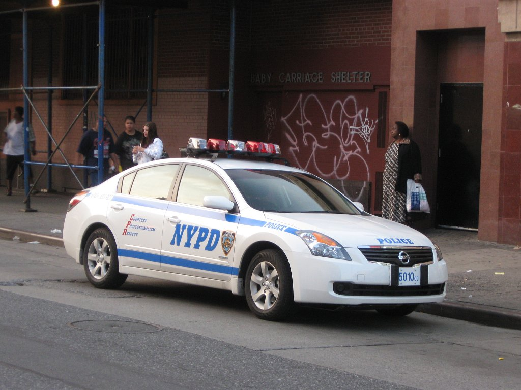 New York City Police cruiser #5010, a Nissan Altima hybrid is parked in Jamaica, New York.